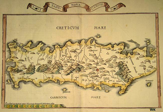 Map of Crete, 1541